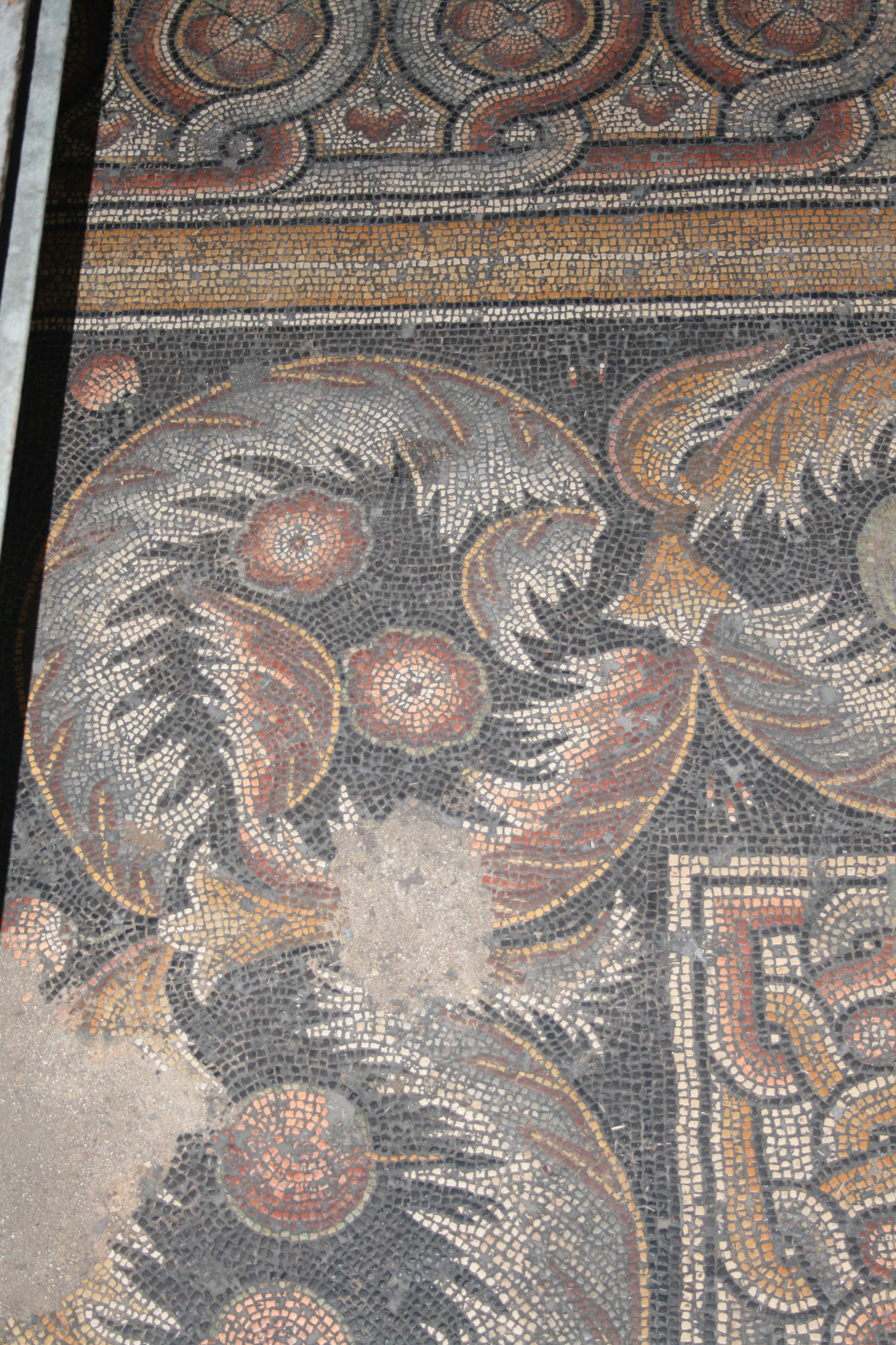 Mosaics of the Church of the Nativity, Bethlehem, Palestine